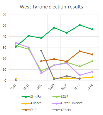 West Tyrone election results